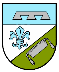 Coat of arms of Schindhard